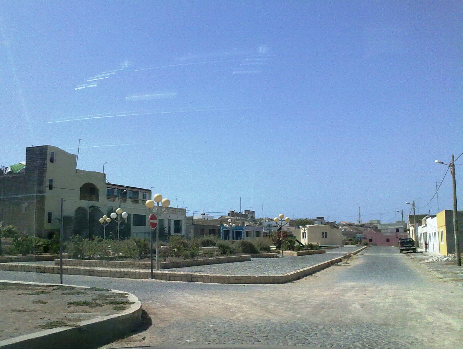 Square at Rabil, Boavista island, Cape Verde.